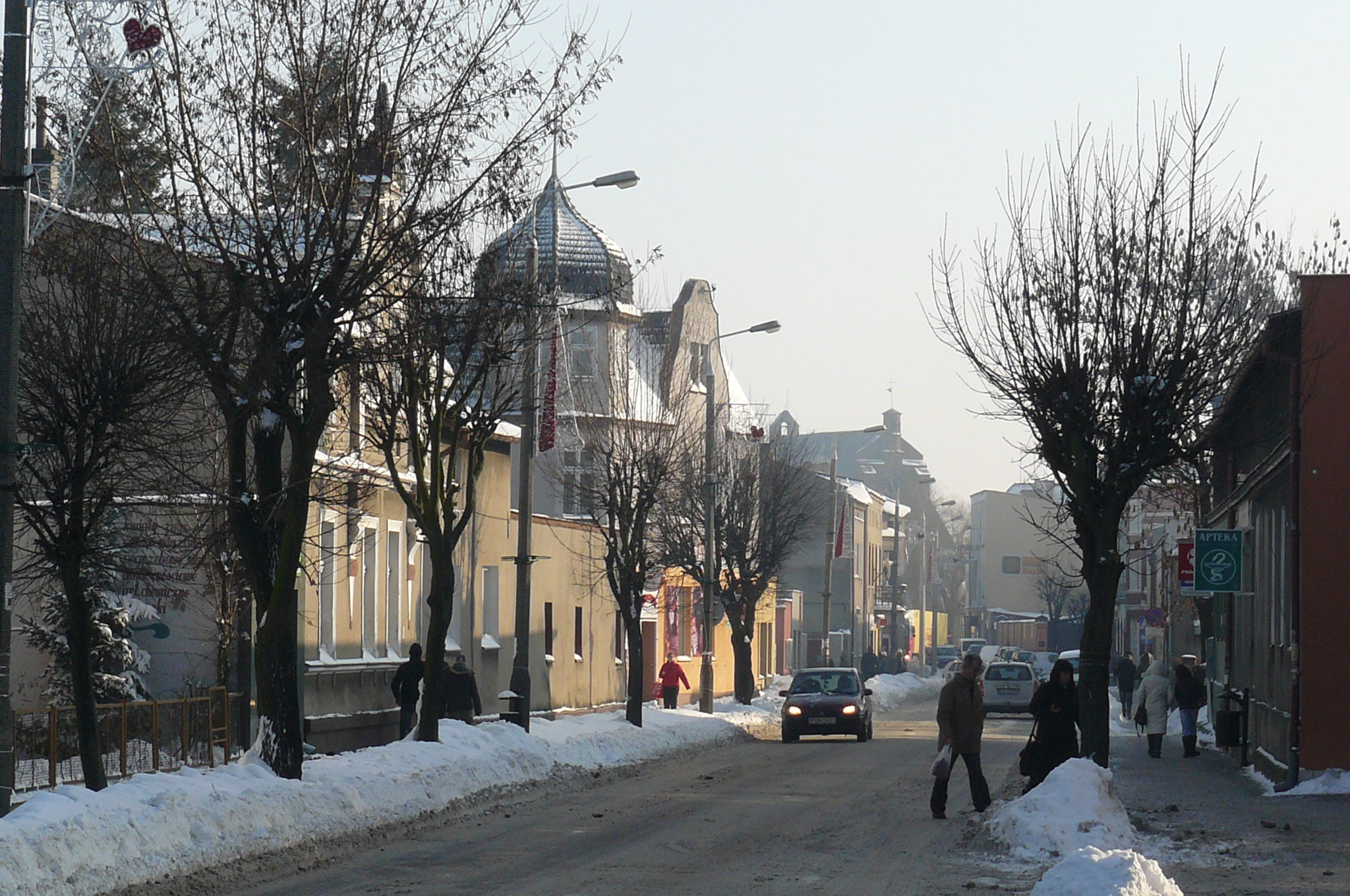 Odnowiciela Street, Pobiedziska, PL.